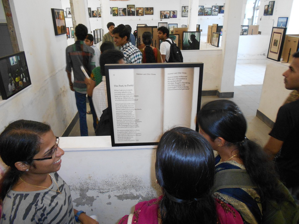 Viewers watching Celebration in laboratory by Atul Dodiya at the Kochi-Muziris Biennale